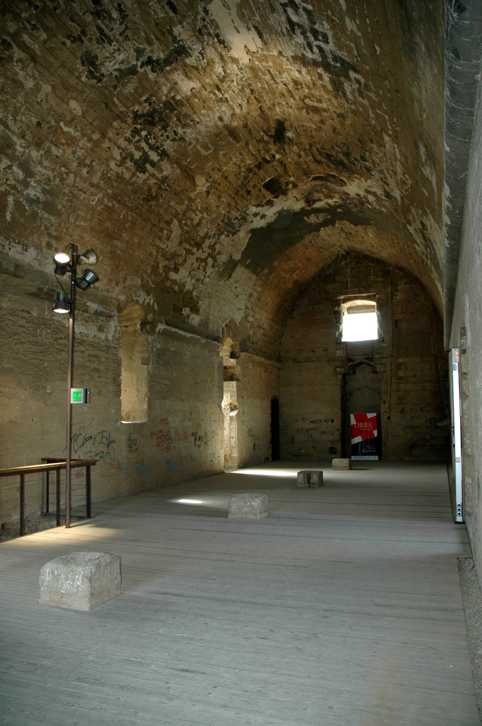 Templar Castle of Gardeny, in Lérida, Spain.